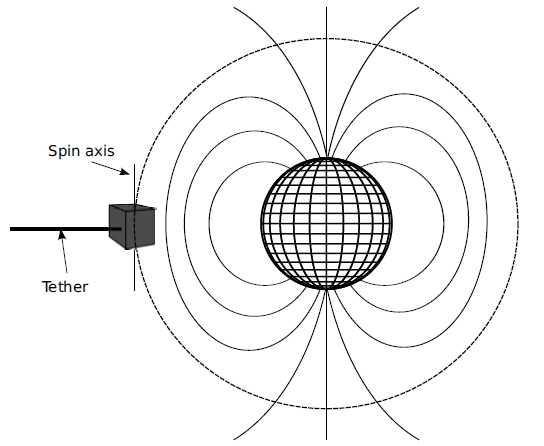 Schematics of an E-Sail experiment performed on ESTCube-1